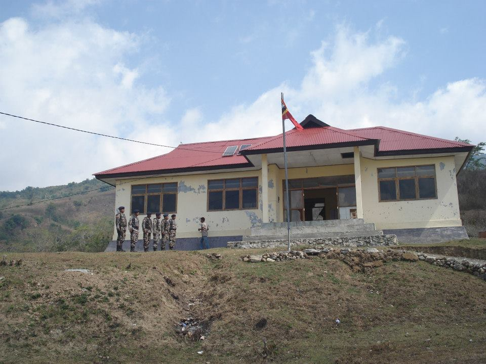 Border post of Fatululic, close to Beco village